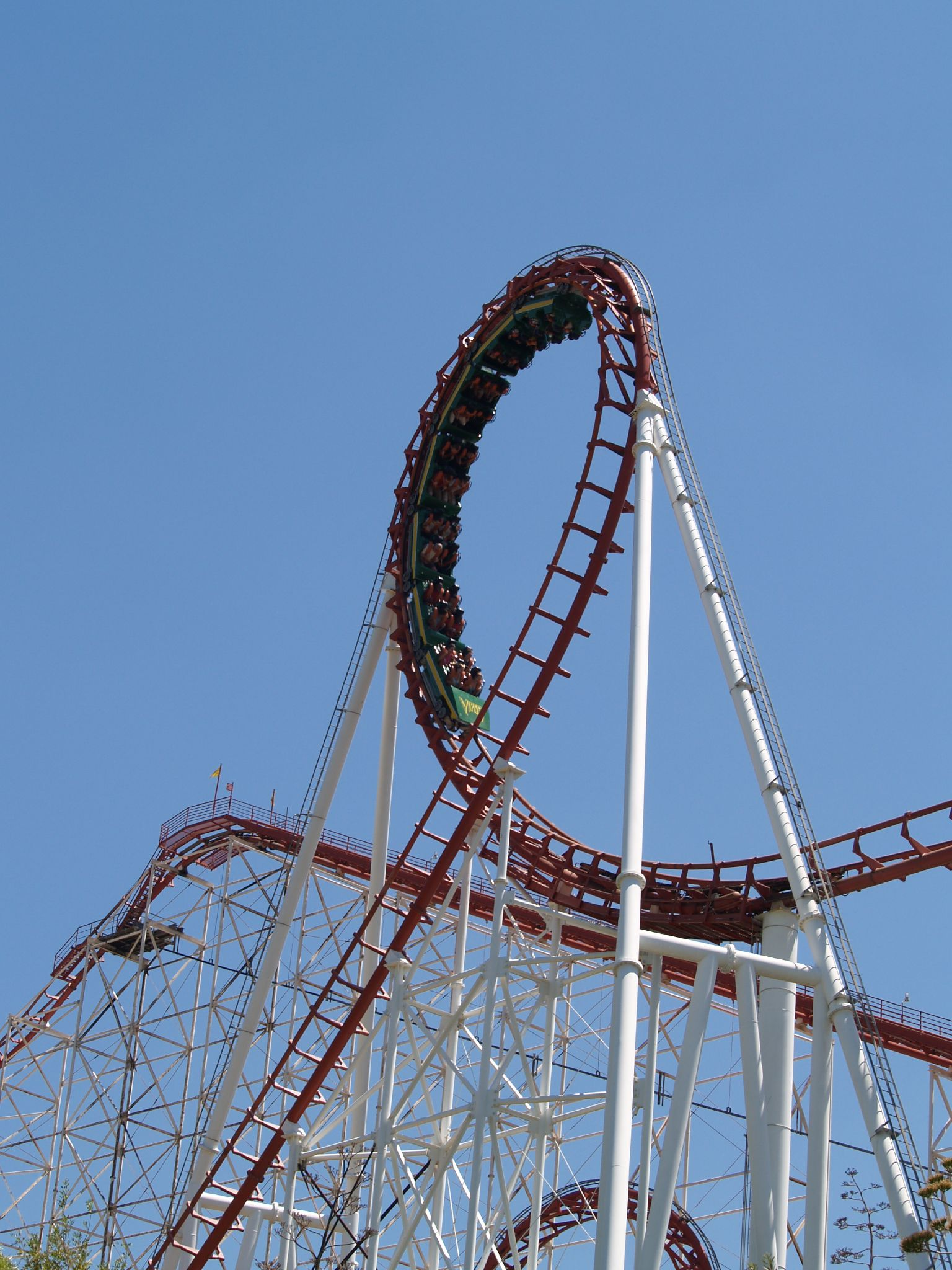 Viper at Six Flags Magic Mountain